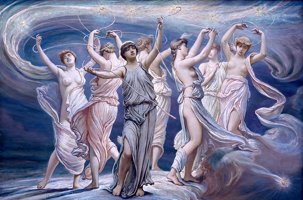 The Pleiades